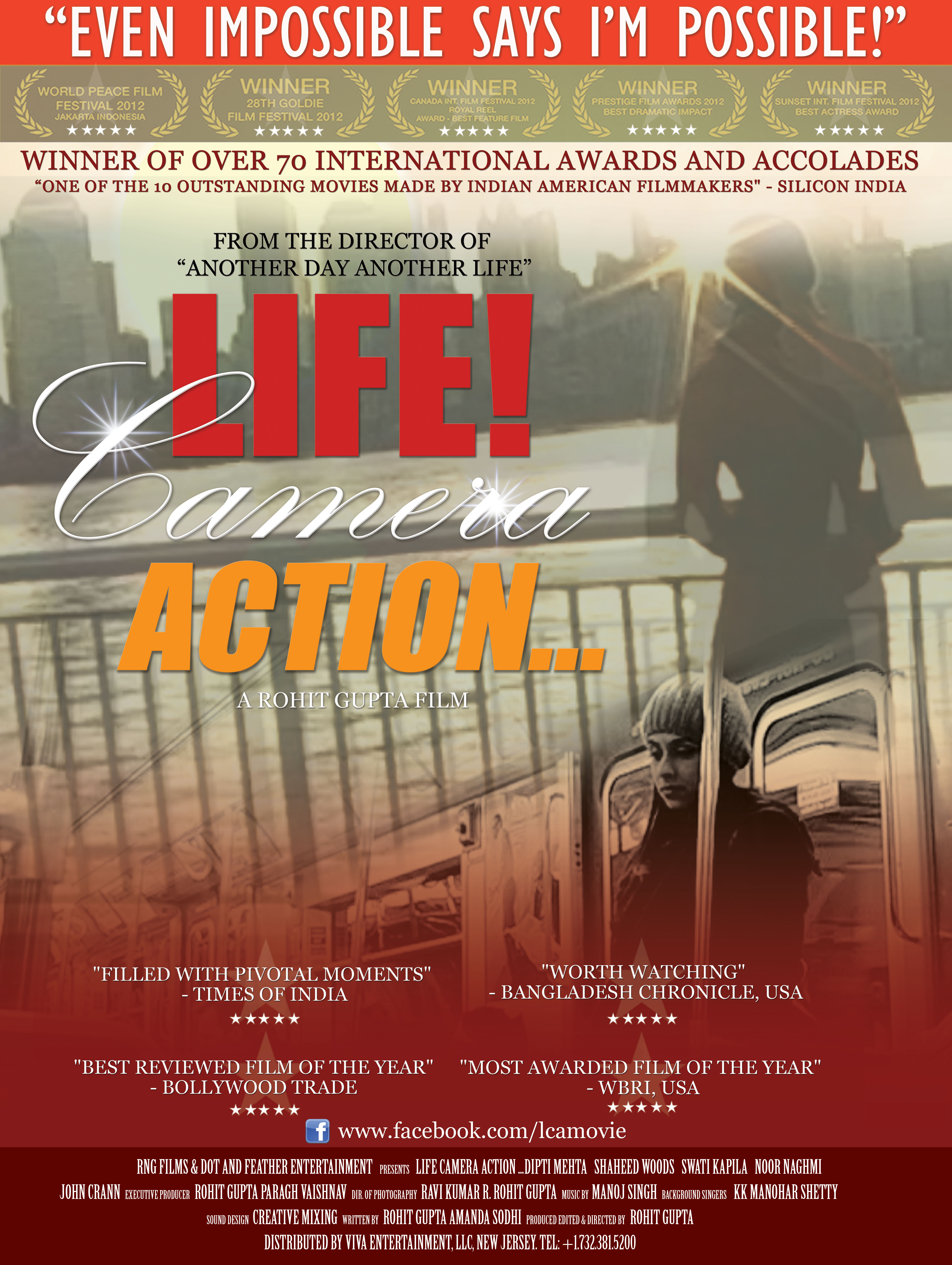 Film main poster